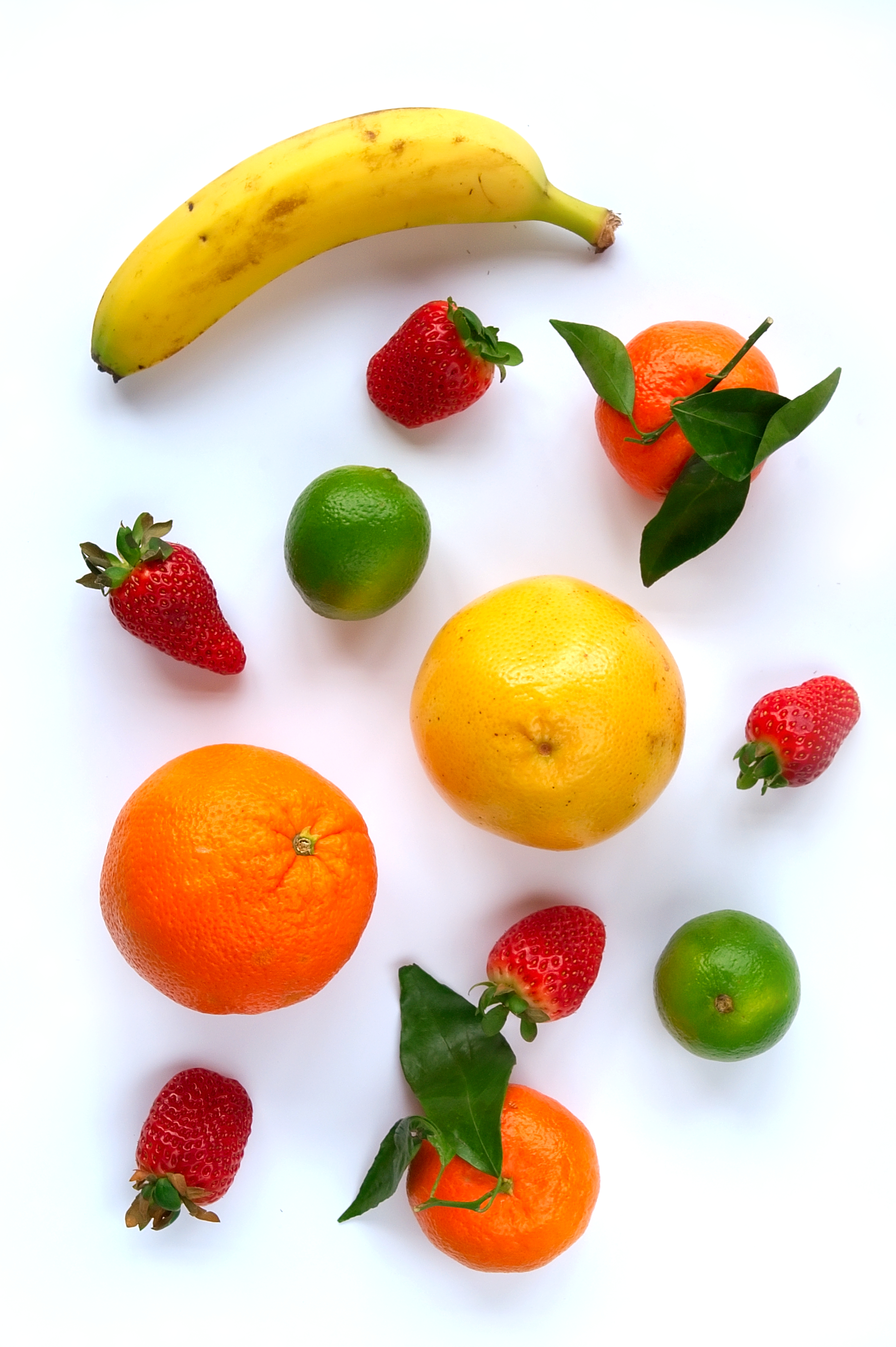 Fruits.